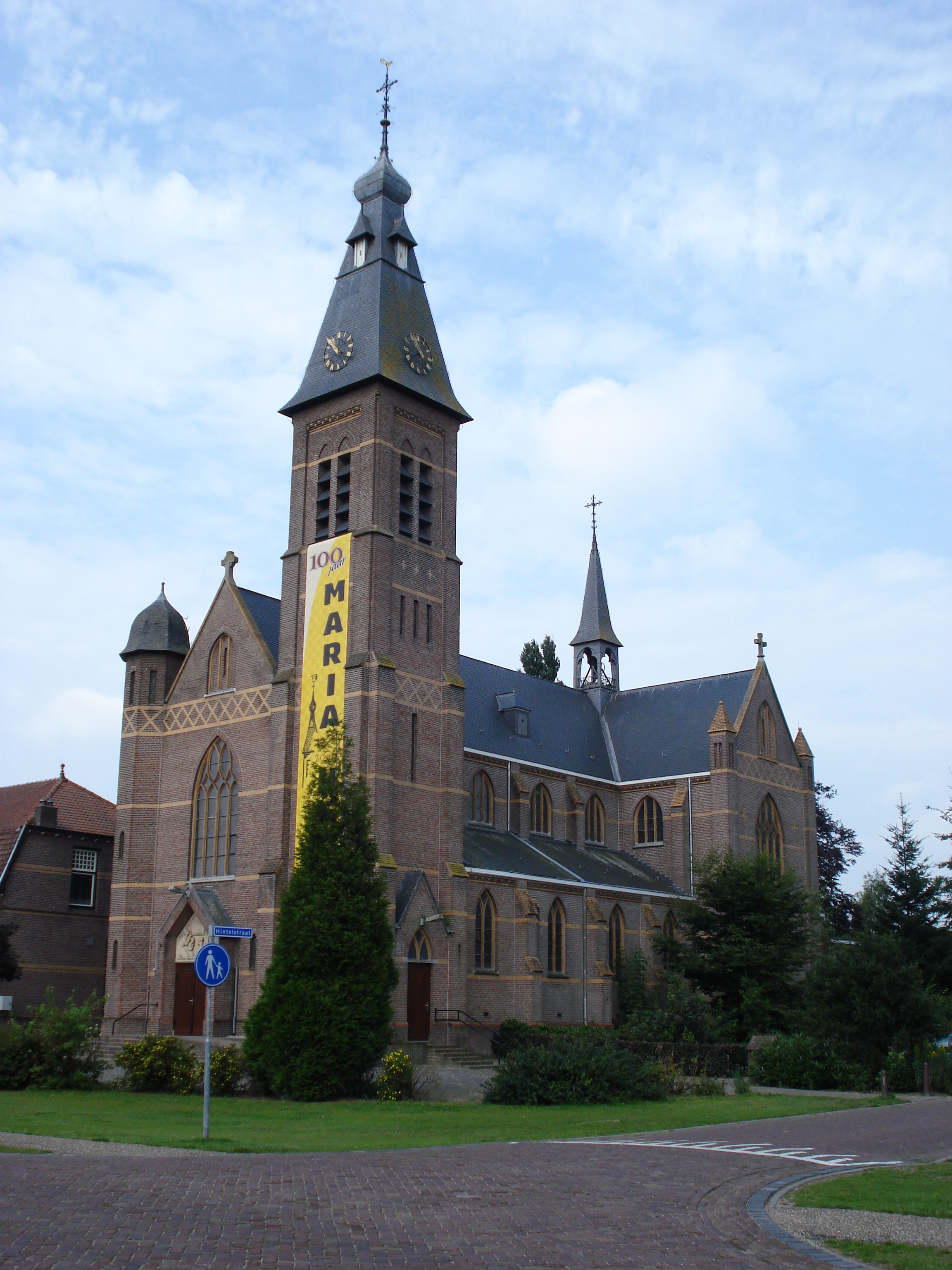 Mariaheide (N-Br, NL) church photo taken july 2007